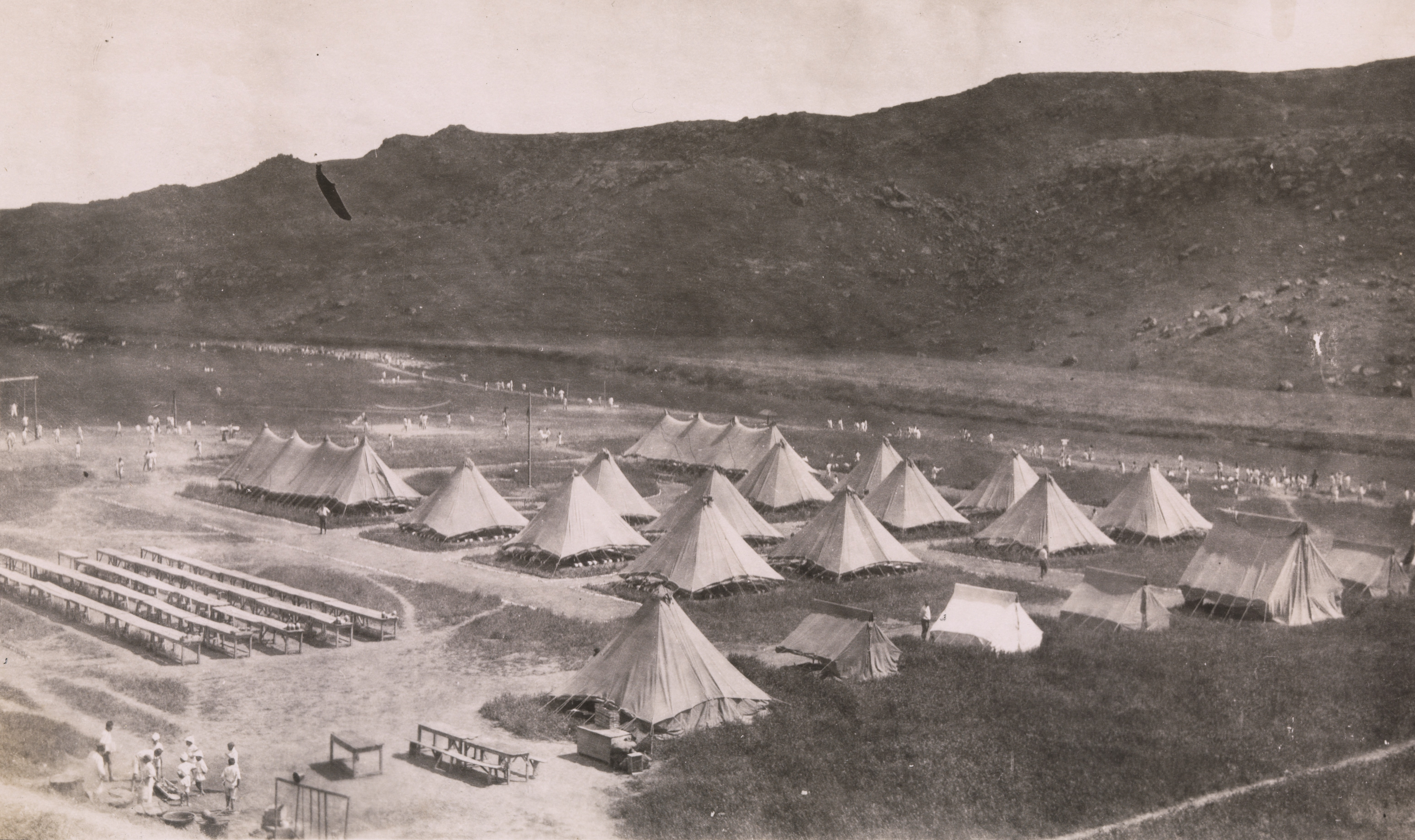 Summer camp for boys by the Arpa-tsjai River. The camp was run by Near East Relief for both healthy and sick children. The healthy children could stay for 2 weeks, the sick could stay longer. One of the pictures from the trip through Armenia, in the period June 7 to July 2, 1925. On request of the International Labour Union (ILO) and the League of Nations, Fridtjof Nansen travelled together with an appointed committee of experts, visiting the country and looking at the plans for artificial irrigation of parts of the desert, in order to relocate refugees there. (Leninakan).